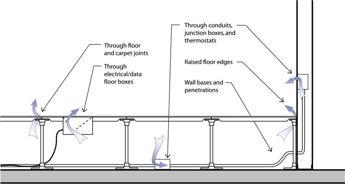 Diagram of Underfloor air distribution good leakage